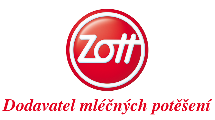 Zott Logo